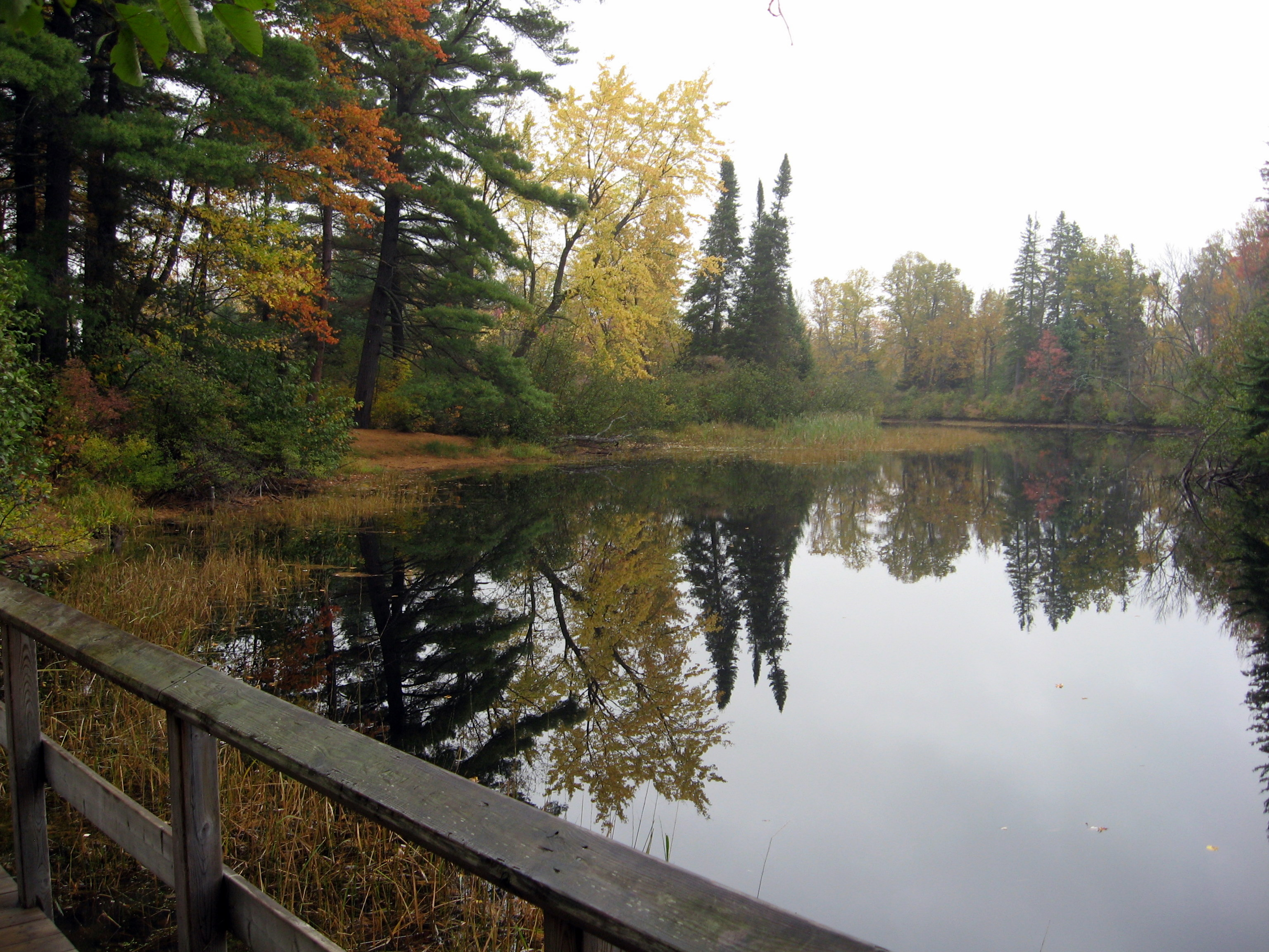 The Bonnechere River in autumn as it winds through the campground at Bonnechere Provincial Park